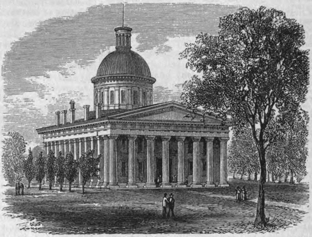 Woodcut view of the Indiana State House at Indianapolis.